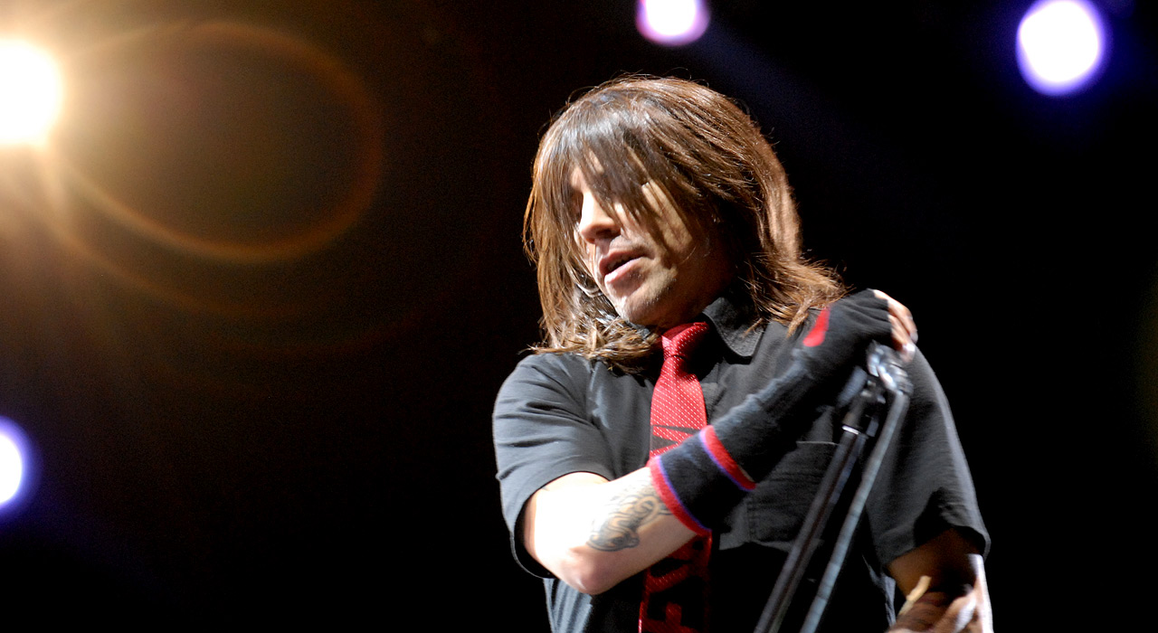 Anthony Kiedis, frontman of the Red Hot Chili Peppers in July 2006